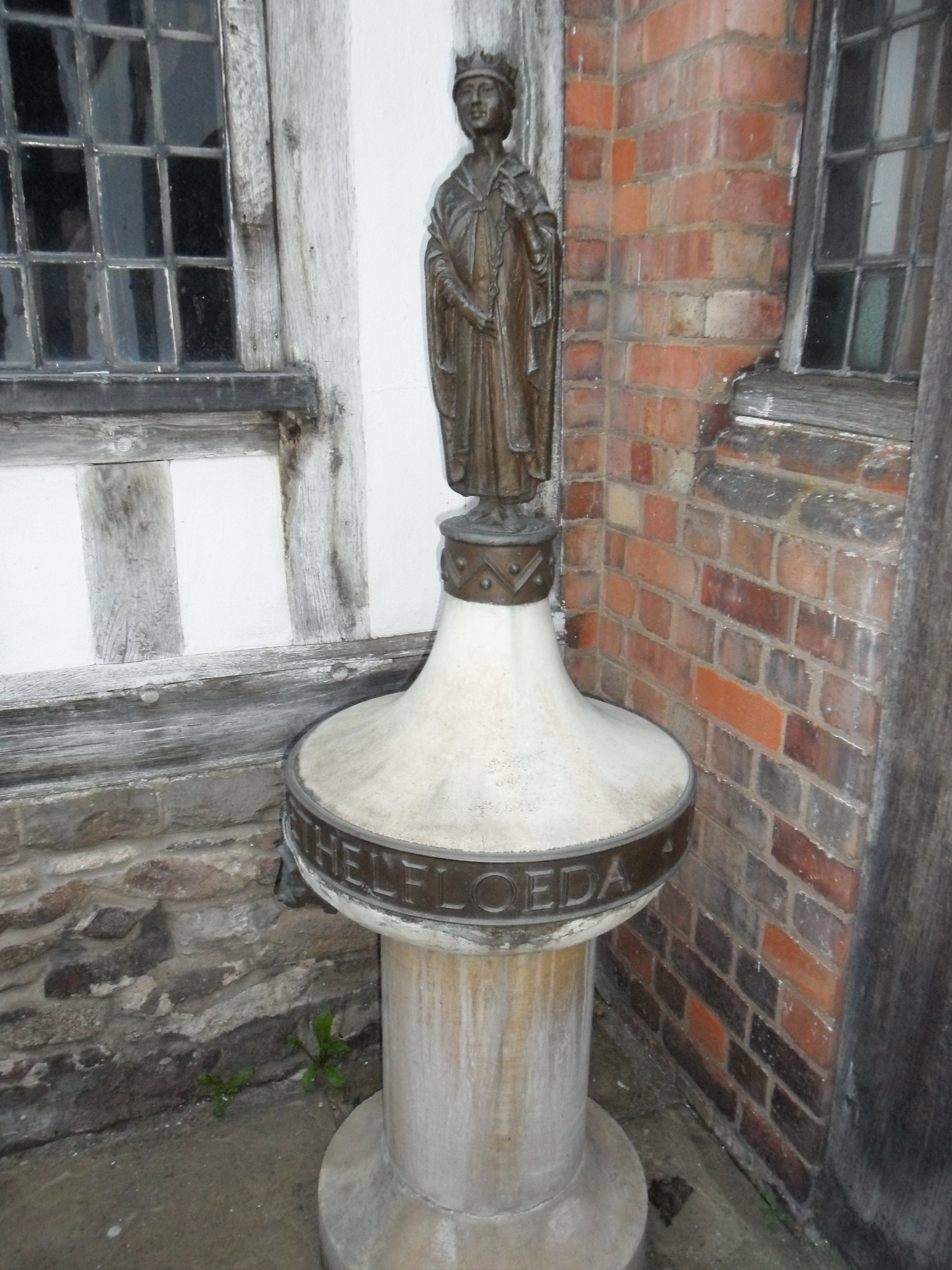 Statue of Æthelflæd within Leicester Guildhall.